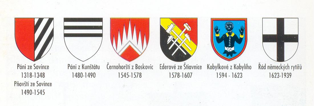 Coat of Arms of Sovinec Castle' owners from 1318-1939.